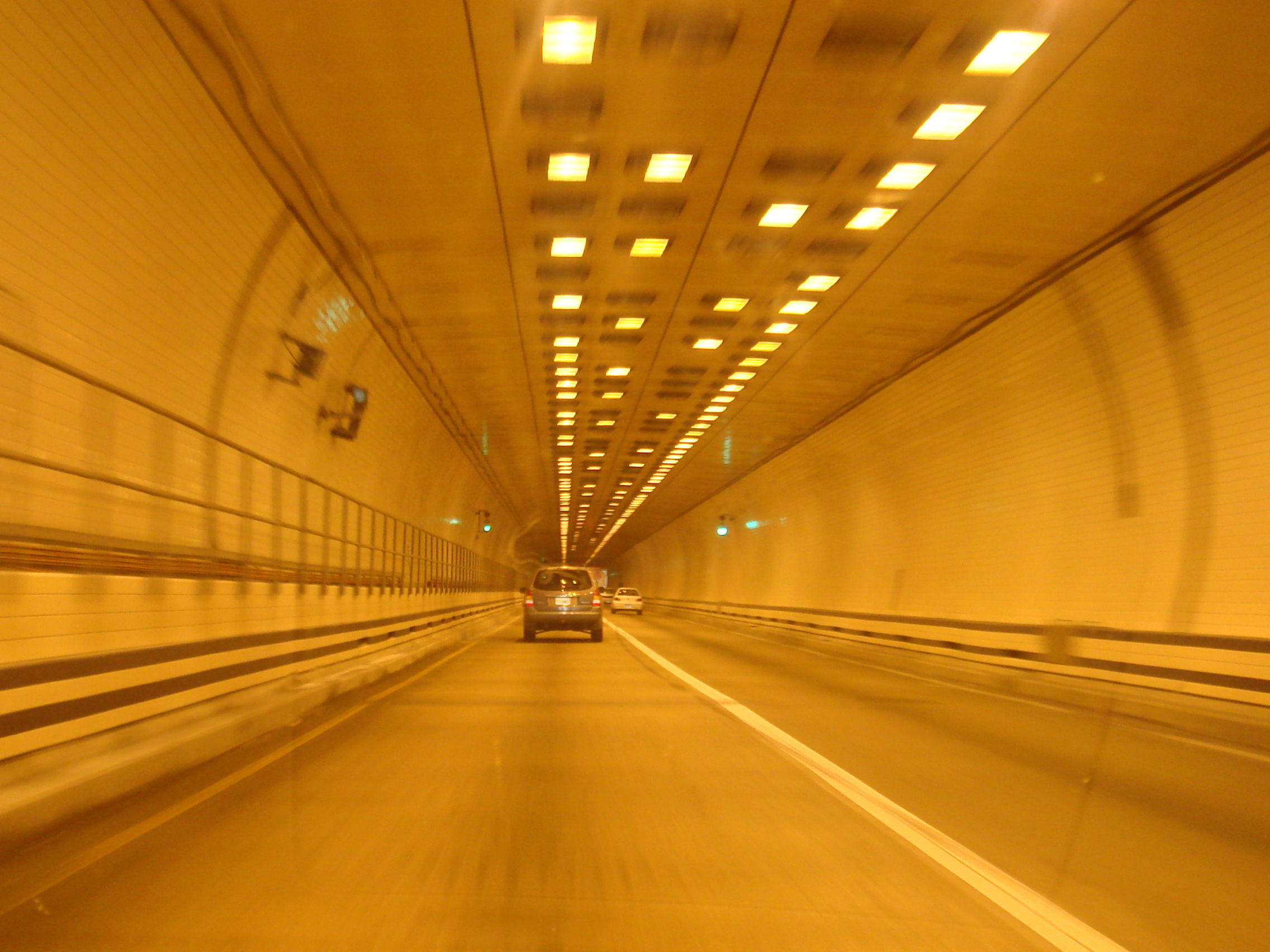 I-664 southbound tunnel. Photo taken on August 1, 2006 by Glenn Calpo.